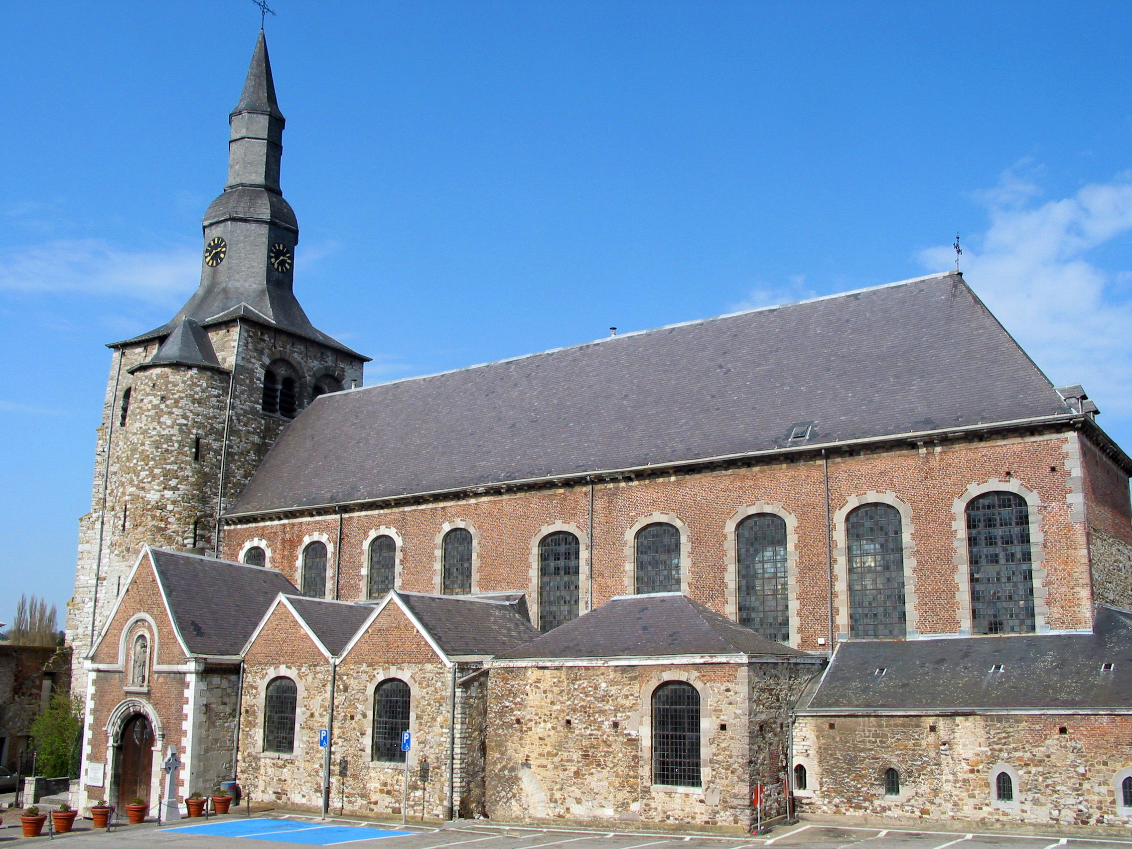 Fosses-la-Ville (Belgium), the collegiate church St. Foillan (romanesque tower).